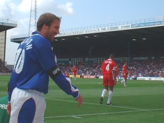 Photo of Paul Merson taken at Fratton Park in 2002. Taken with permission from